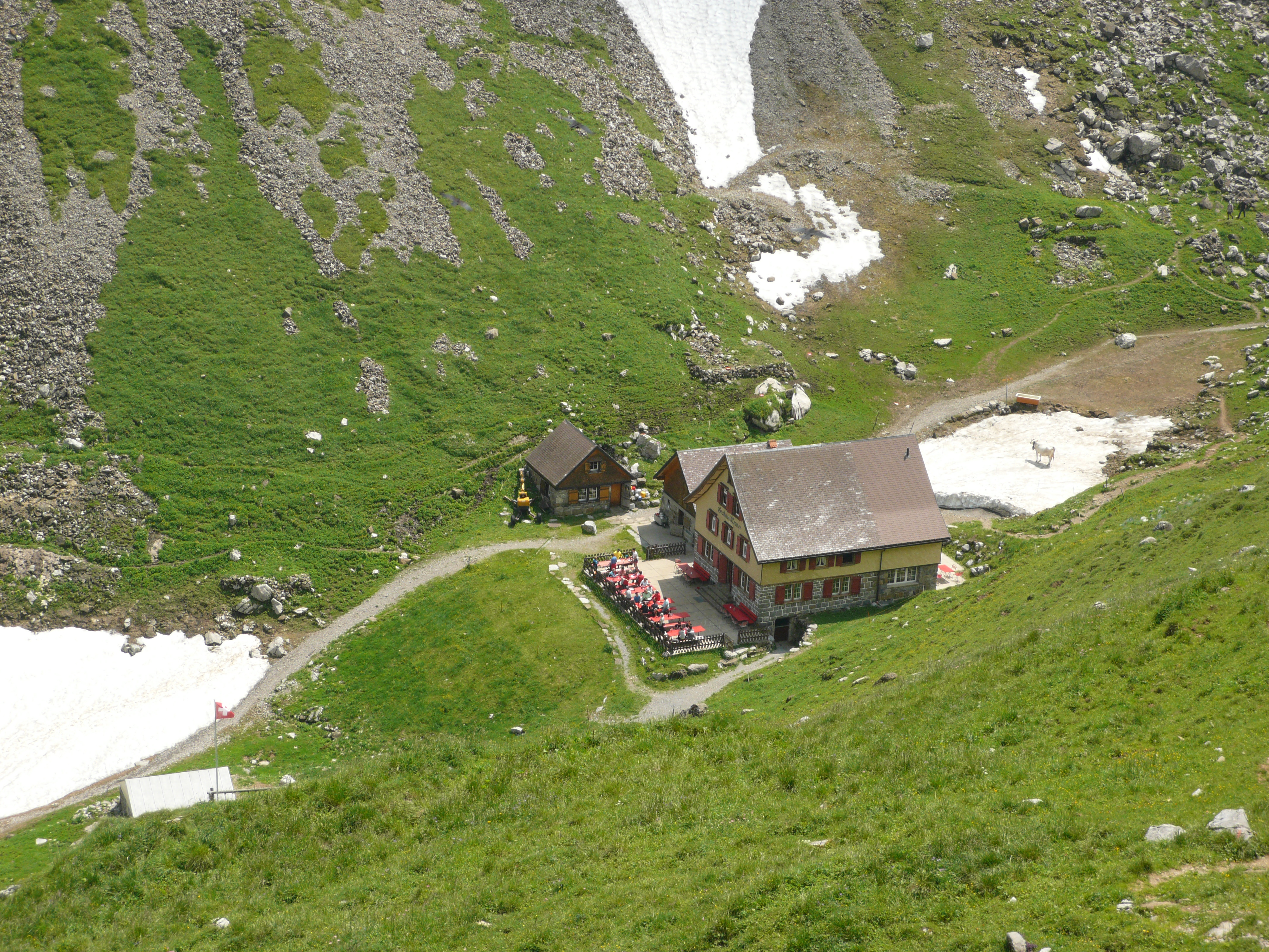 Peasant location and restaurant in the Swiss mountains of Appenzell